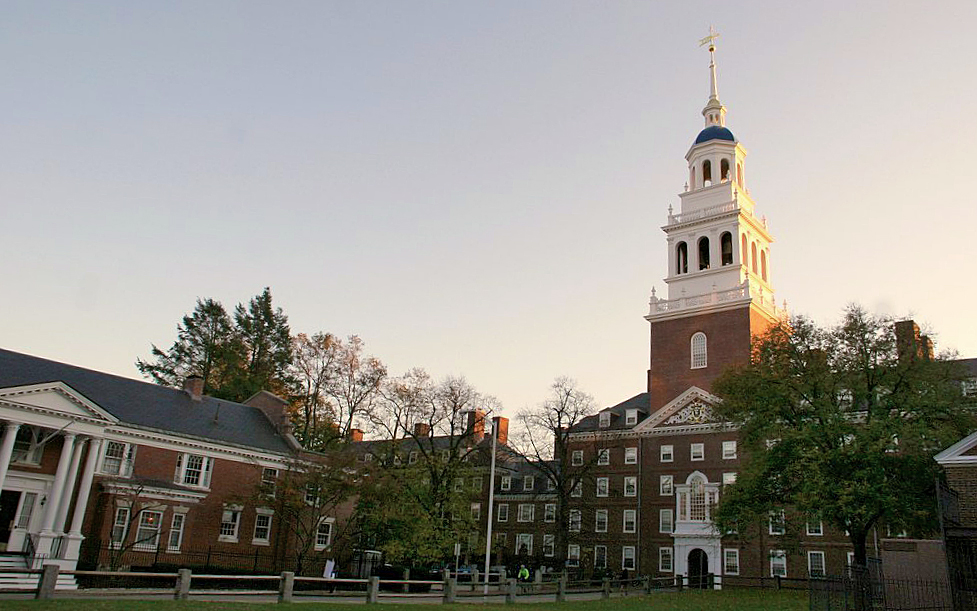 The Lowell house within Harvard University.